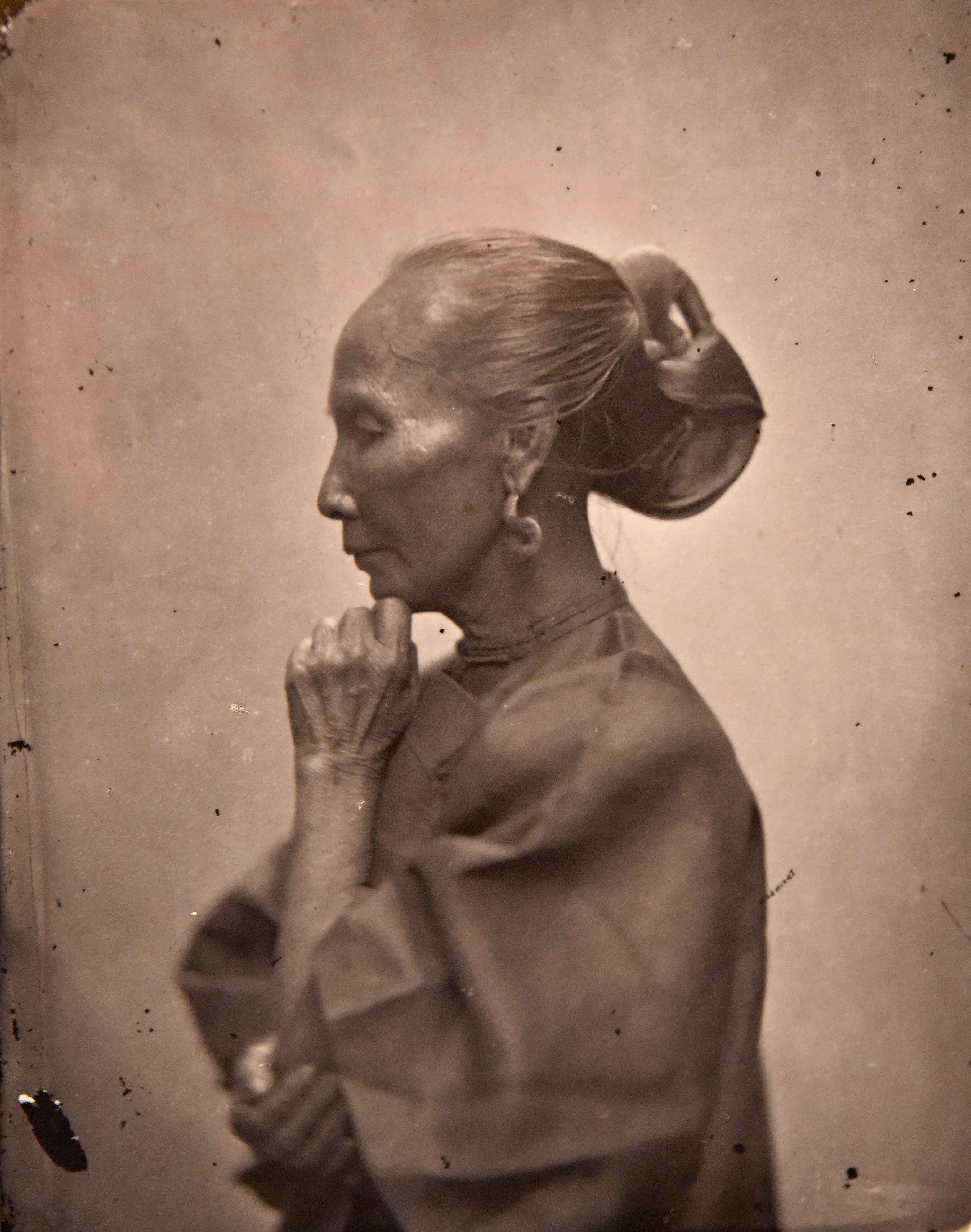 Old Chinese woman with elaborate hair style. John Thomson. China, 1869. The picture is housed in the Wellcome Collection and is on display. The original black&white picture is ©Wellcome Trust.